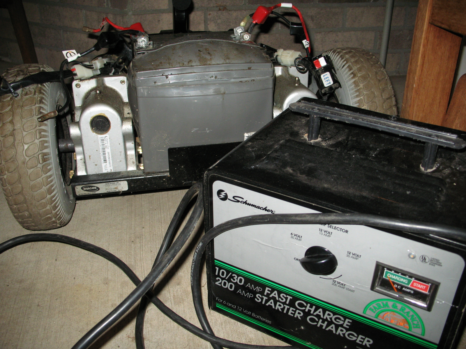 VRLA_Overcharged_using_12v_10A_charger_-_Acid_boiled_out_-_case_bulged_and_swelled